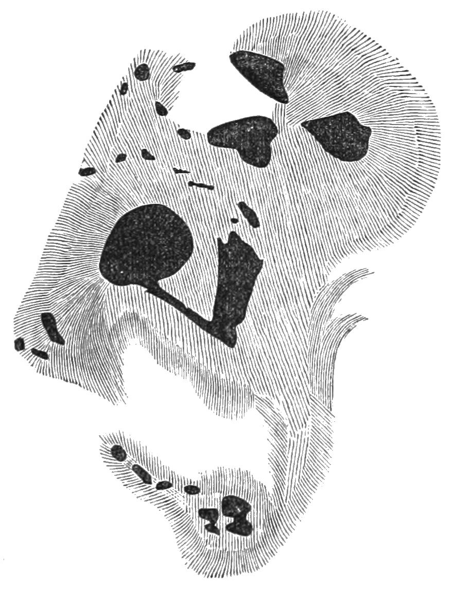 November 18 sunspot with major magnetic storm